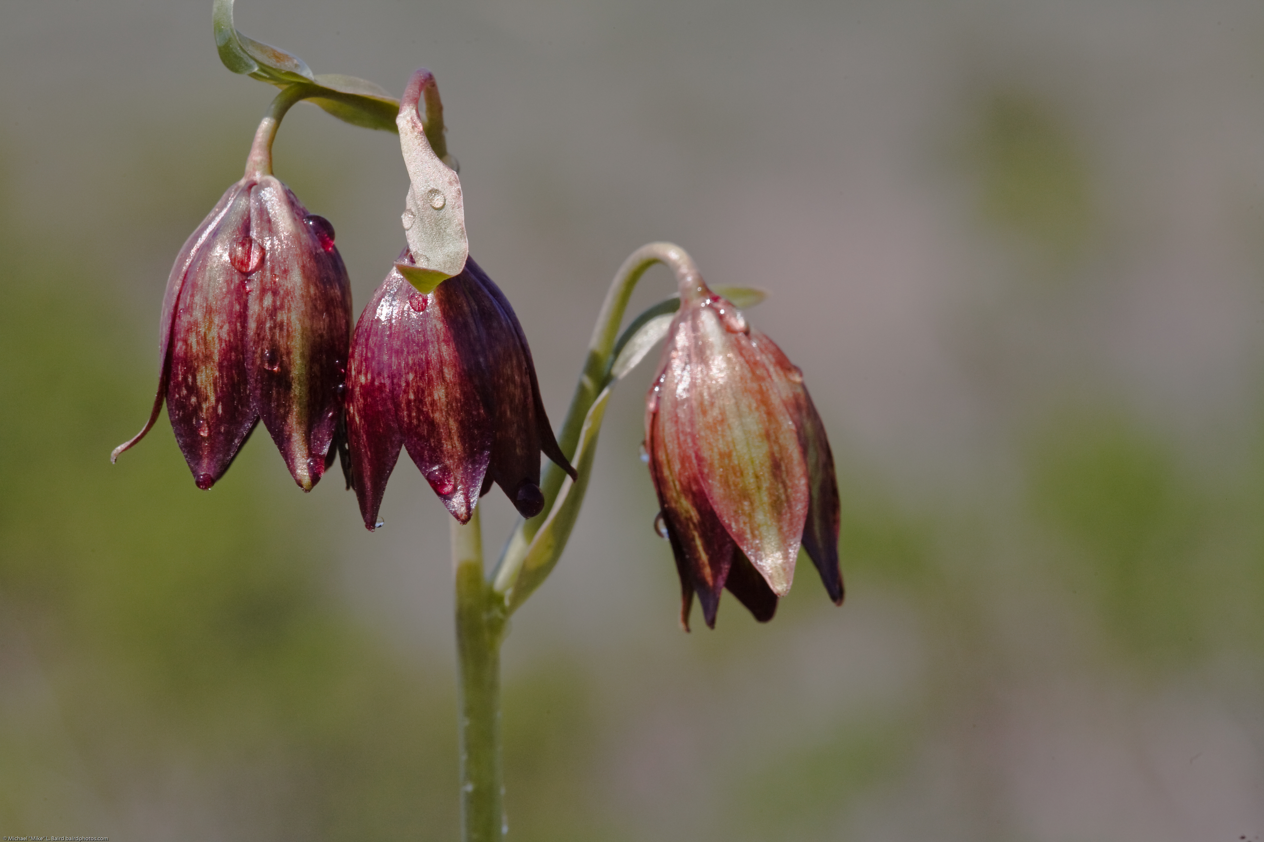 Fritillaria biflora (Chocolate Lily) endemic to California As seen on the Crespi Trail off Turri road, between Los Osos and Morro Bay, CA, USA Canon 5D w/ Canon EF 180mm f3.5L Macro USM AutoFocus Telephoto Lens for Canon SLR Cameras on Gitzo GT1540 6X Carbon Fiber Series 1 G-Lock Mountaineer Tripod.